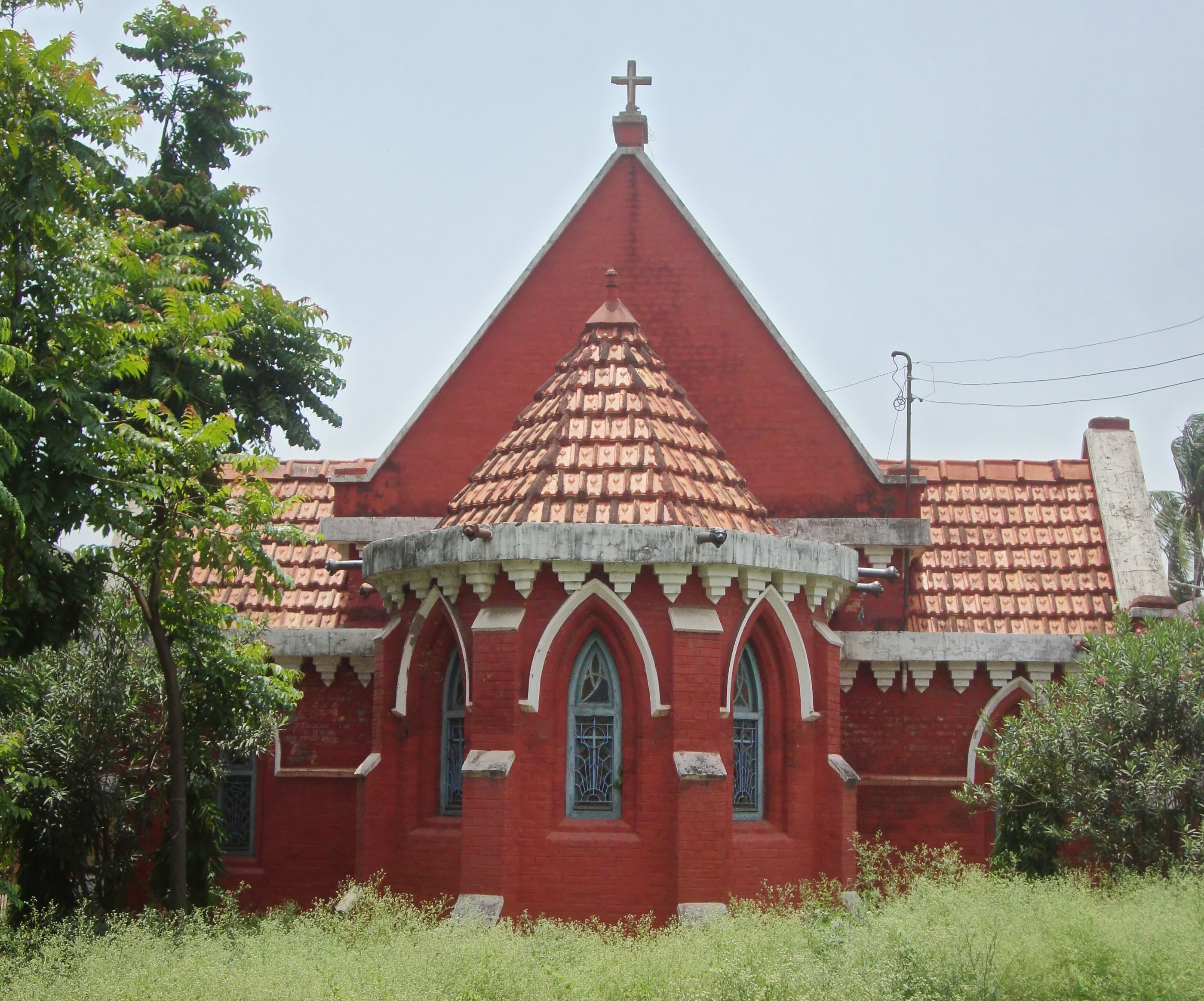 Burdwan Church, G.T.Road